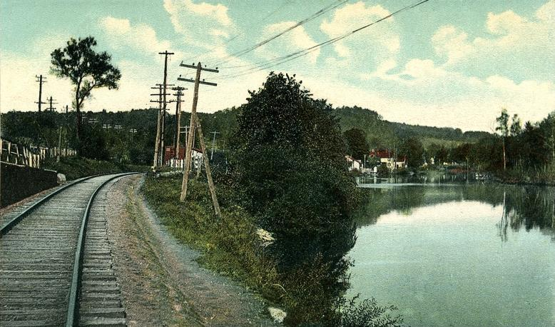 Housatonic River at Housatonic, MA; from a c. 1907 postcard published by the American News Company.